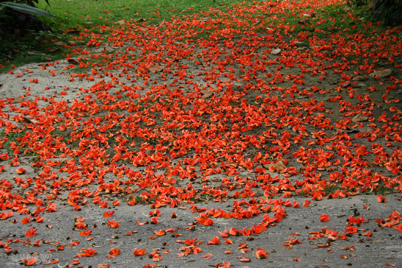 Dhak Butea monosperma in Kolkata, West Bengal, India.